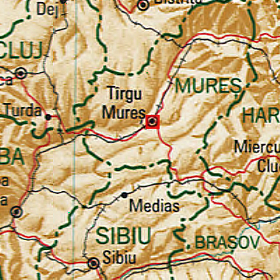 Map of Târgu Mureș Municipality, Romania.